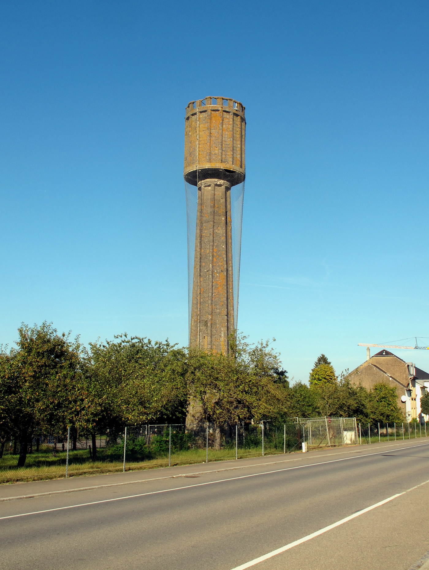 Old water tower in Hellange, Luxembourg